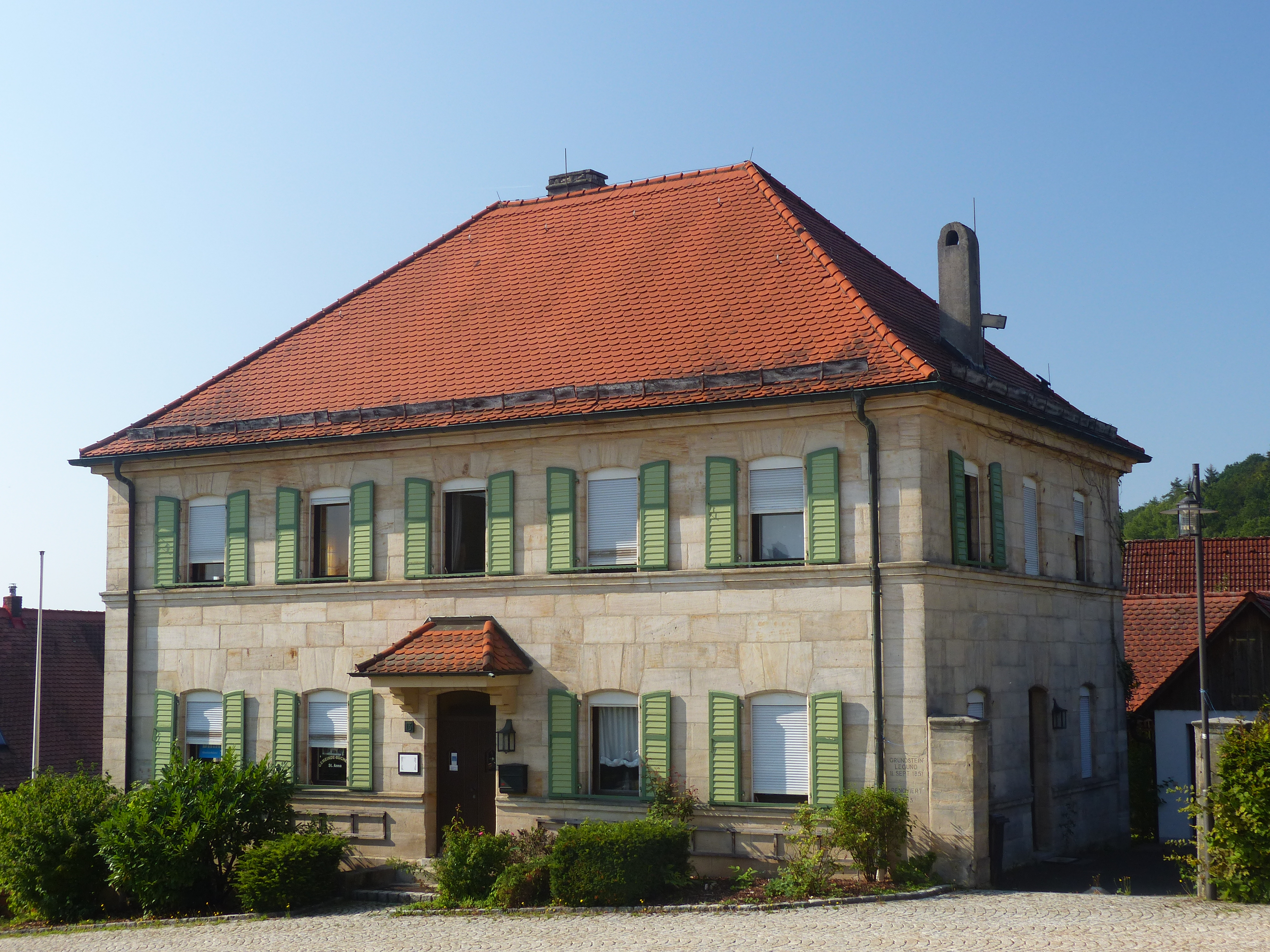 The vicarage of the village Unterweilersbach, a district of the municipality of Weilersbach.